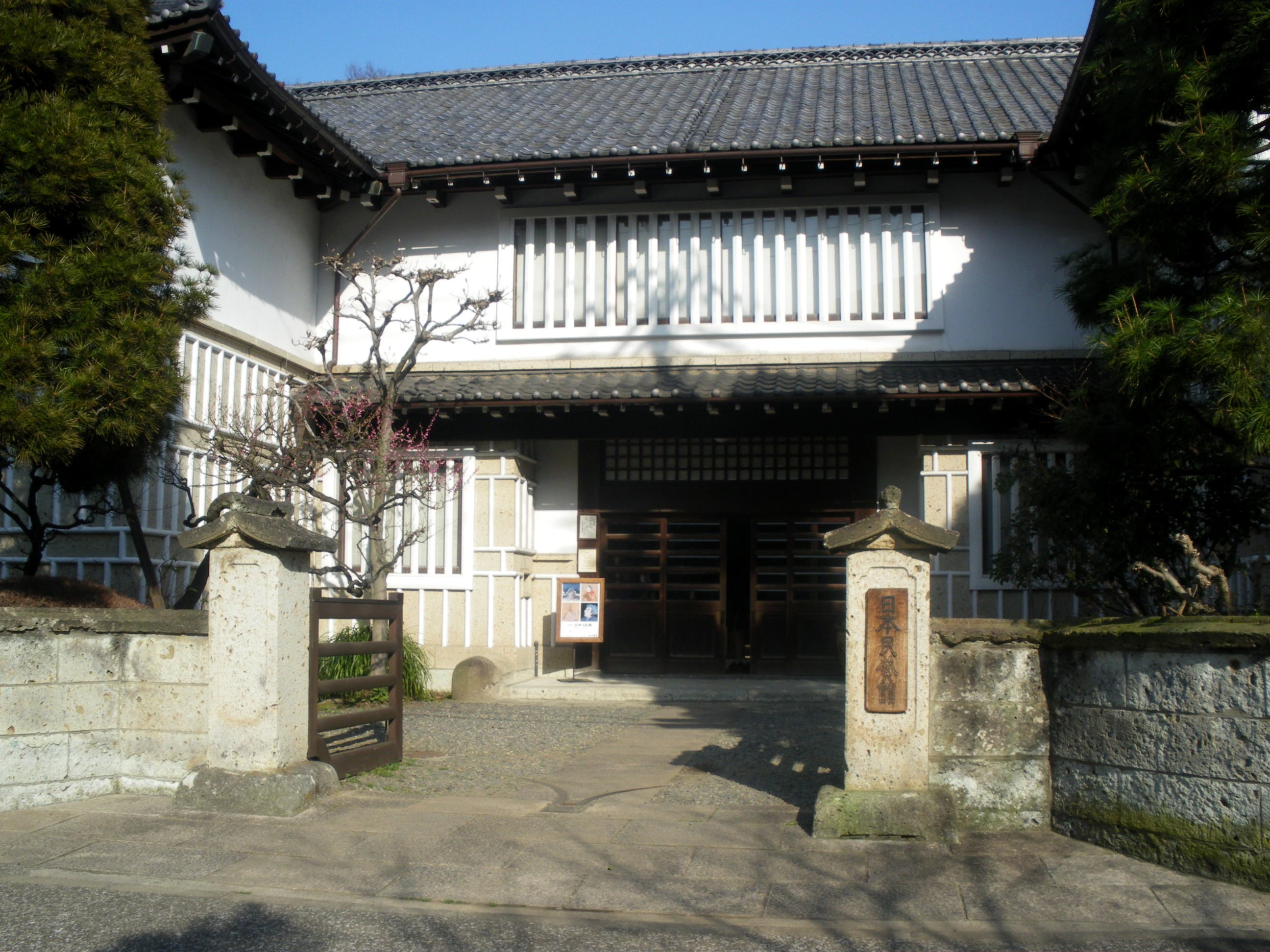 Nihon Mingeikan(Komaba,Meguro,Tokyo)